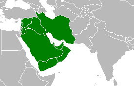 Participating countries of West Asian Games